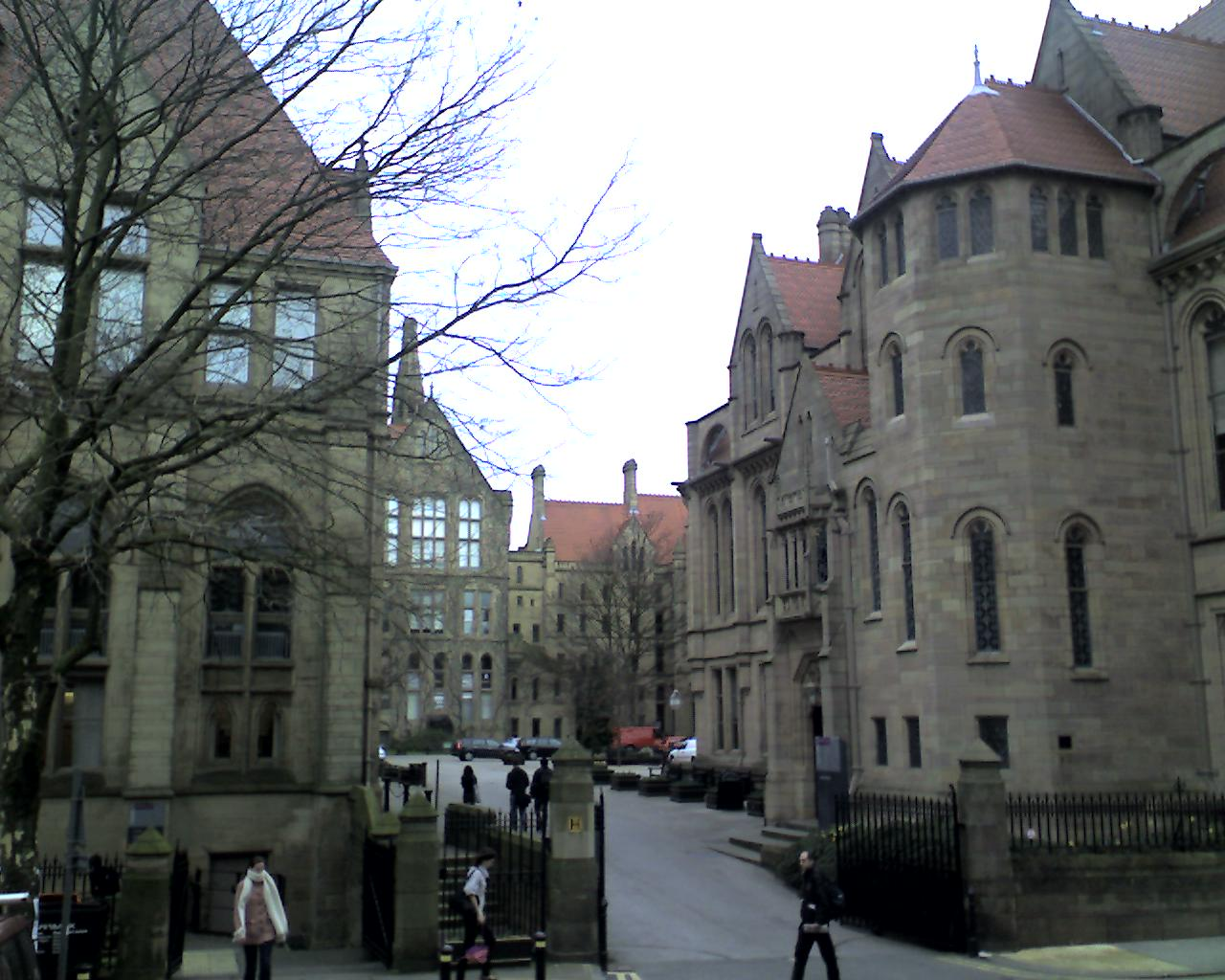 Manchester University. Entrance to the Old Quadrangle; taken from Burlington Street